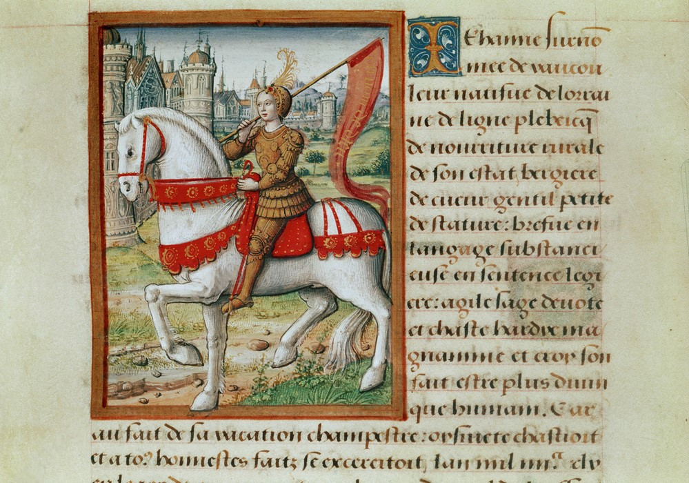 Joan of Arc depicted on horseback in an illustration from a 1504 manuscript.